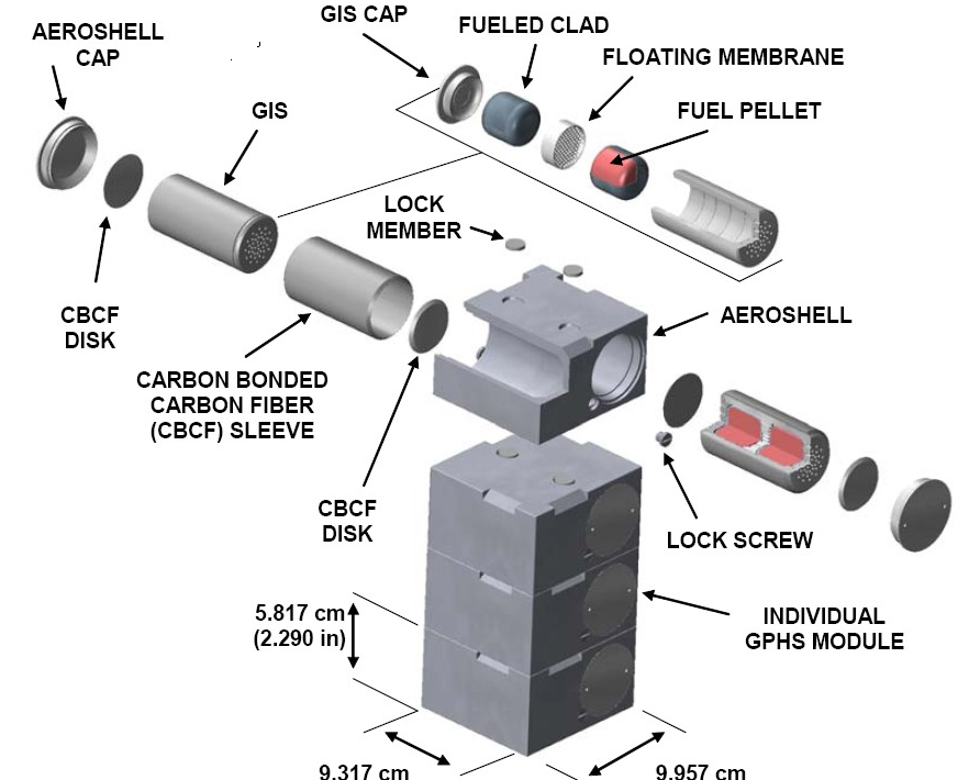 General Purpose Heat Source. Exploded view with English labels. Note: GIS stands for Graphite Impact Shell.